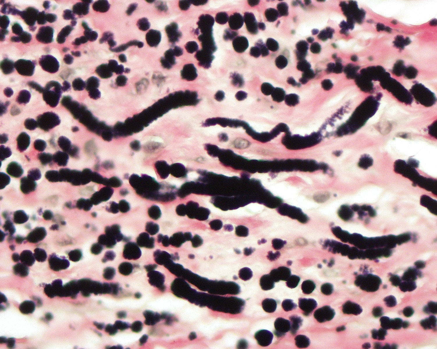 A high power photomicrograph of an elastic stained elastofibroma.